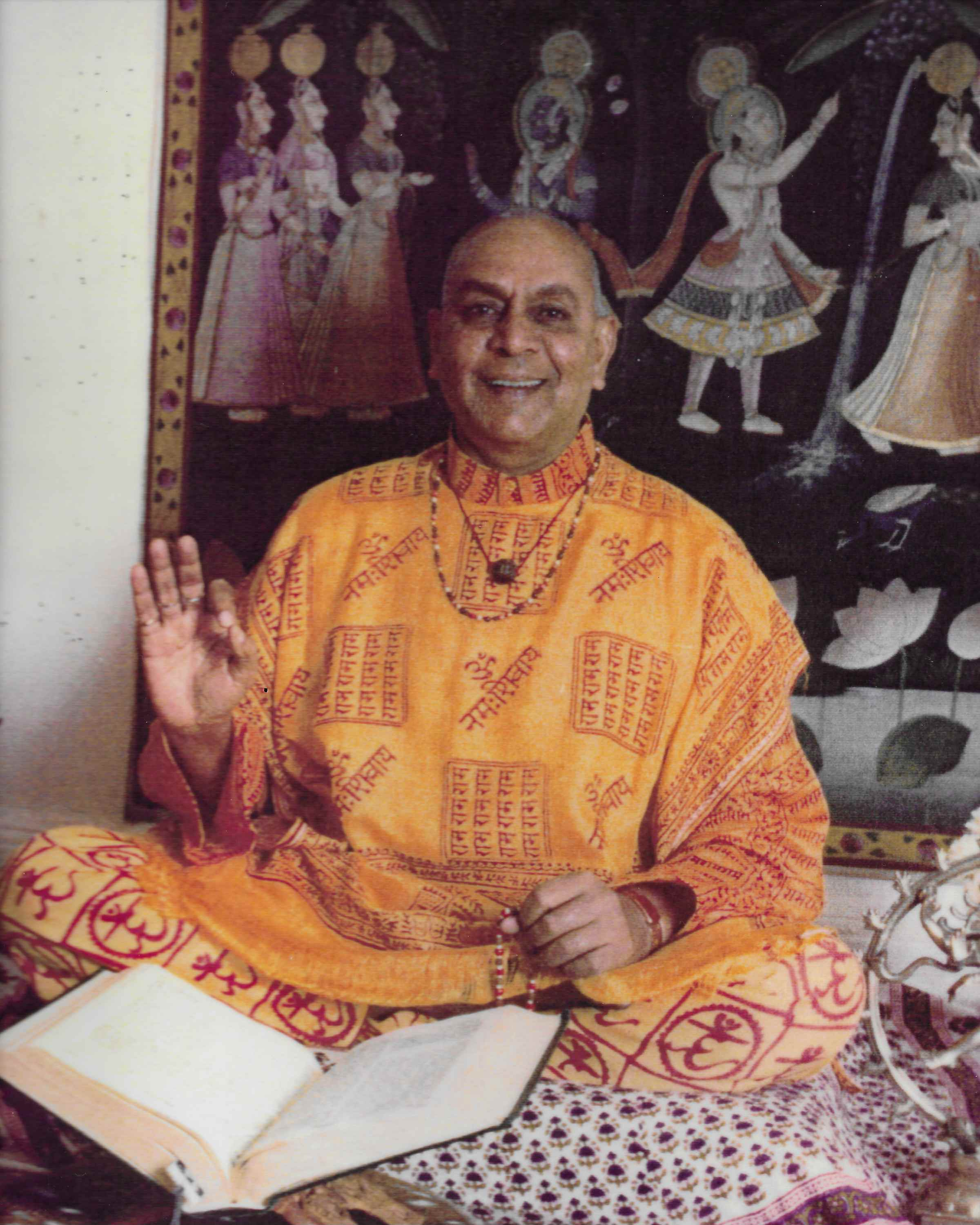 Yogi Gupta